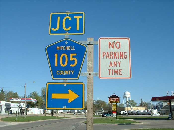 Photo of the former eastern terminus of Iowa Highway 105, now County Road 105, in St. Ansgar, Iowa. Taken April 24, 2005.